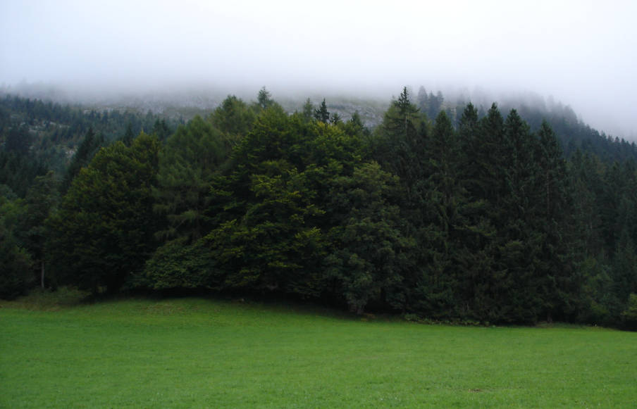 mixed forest